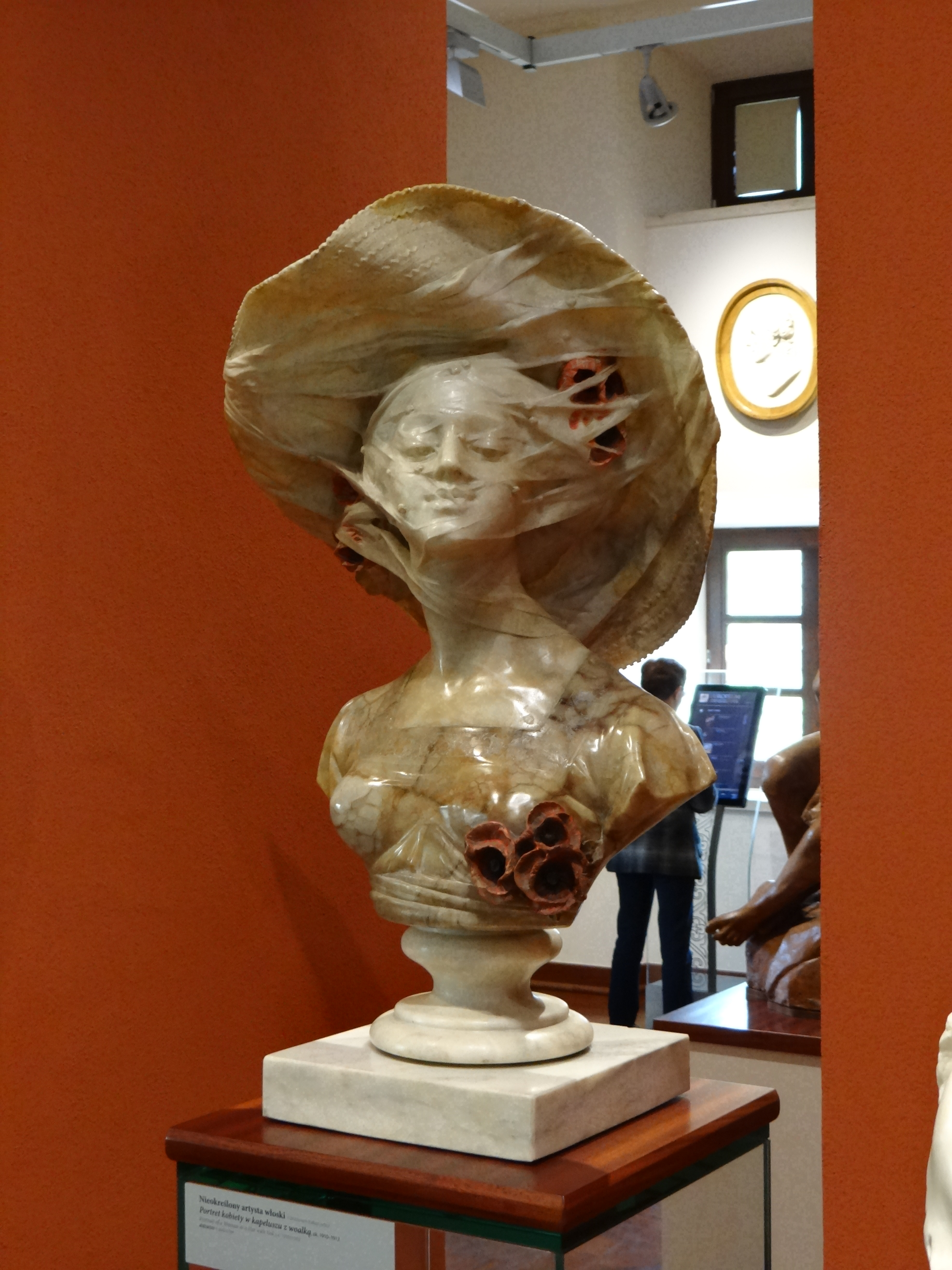 Nieokreślony artysta włoski Portret kobiety w kapeluszu z woalką ok. 1910-1912 Alabaster Unknown Italian artist Portrait of a Woman in a Hat with Veil ca. 1910-1912 Alabaster